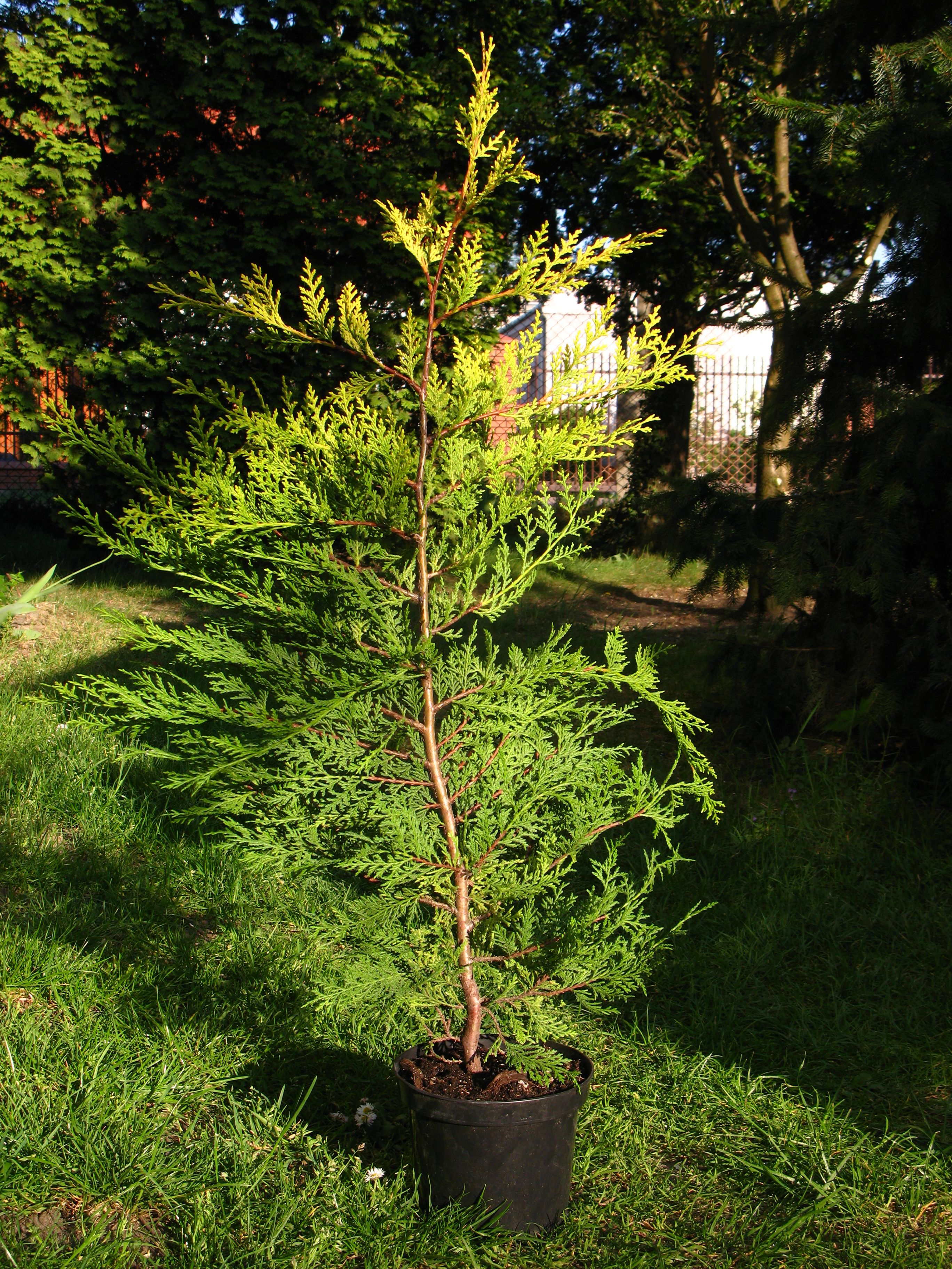 Leyland Cypress 'Castlewellan Gold' in flower pot, Marki, Poland